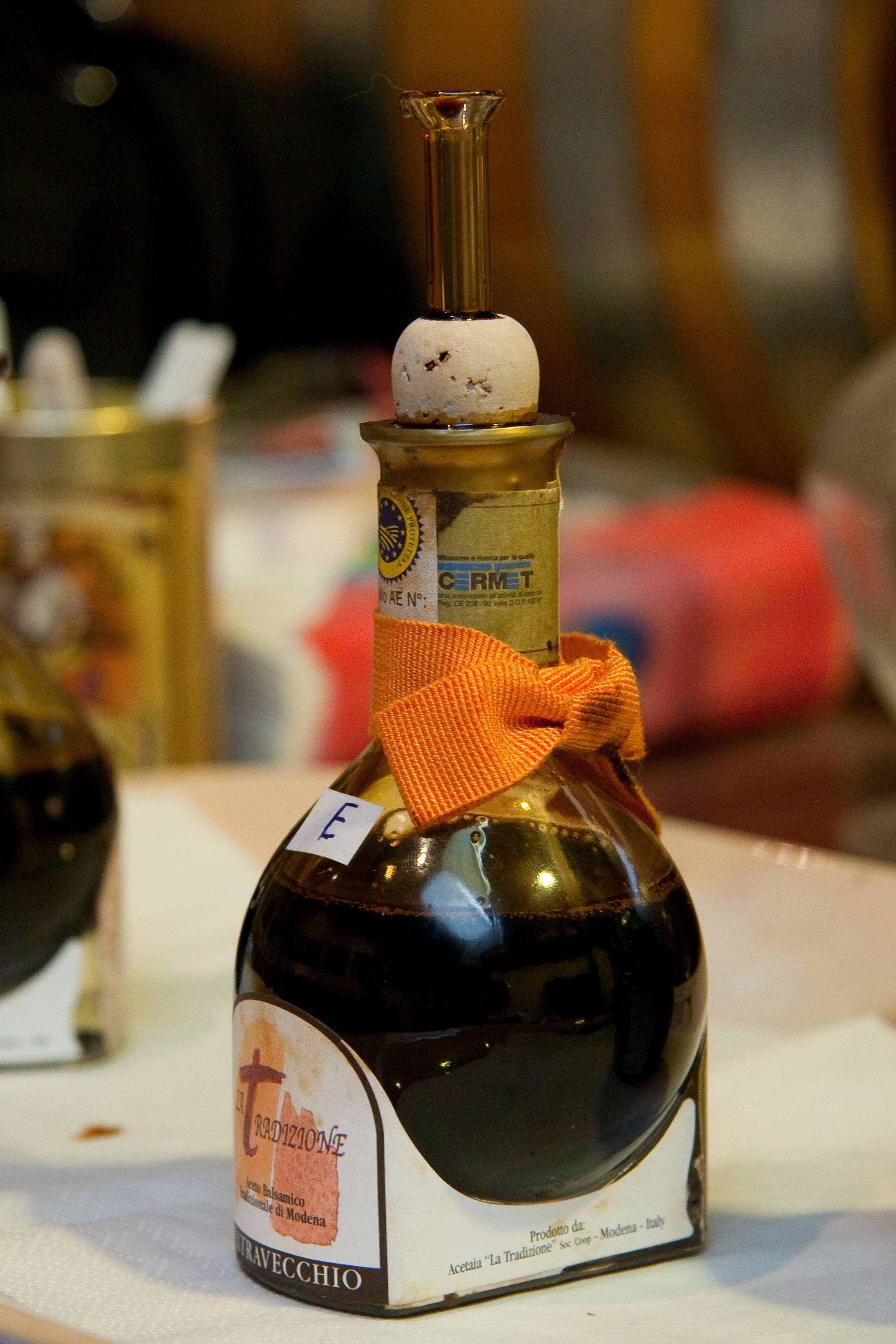 Aceto balsamico, the typical vinegar of Modena.